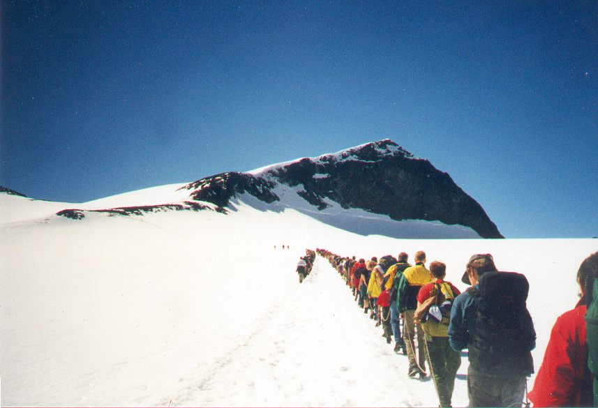 Crossing the glacier between Juvasshytta and the highest mountain in Norway, Galdhøpiggen, which is seen in the background.